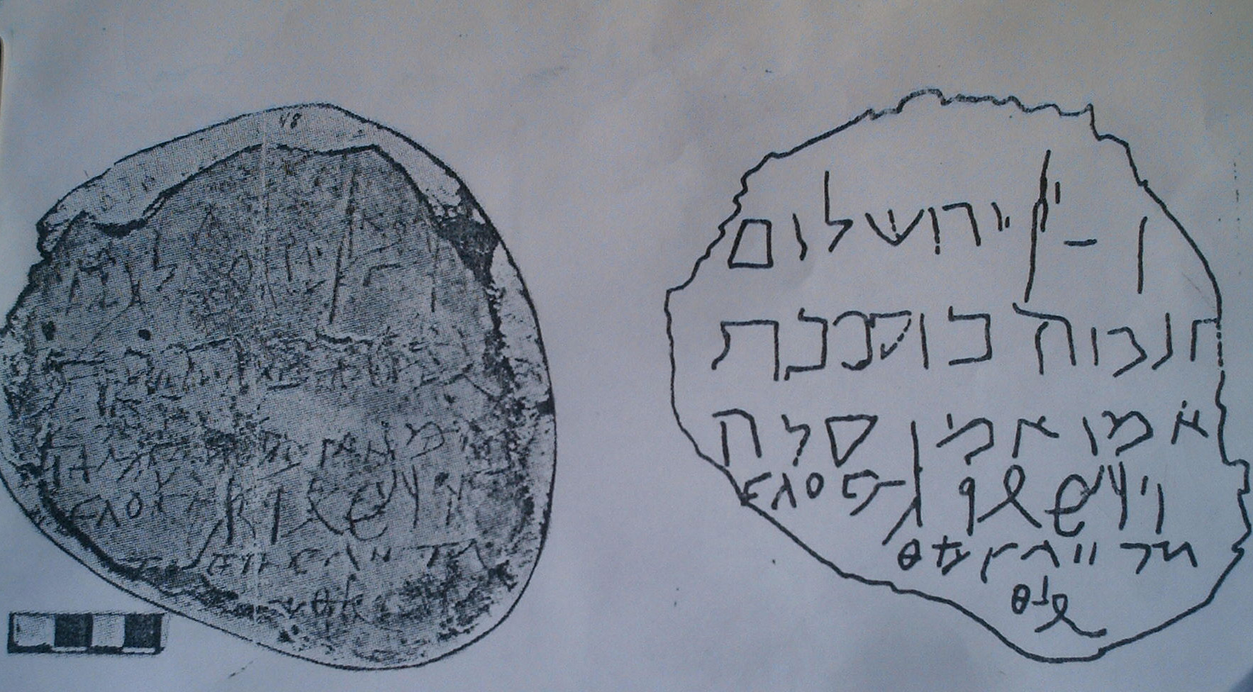 A fragmented Hebrew inscription on a fresco in Khersonese